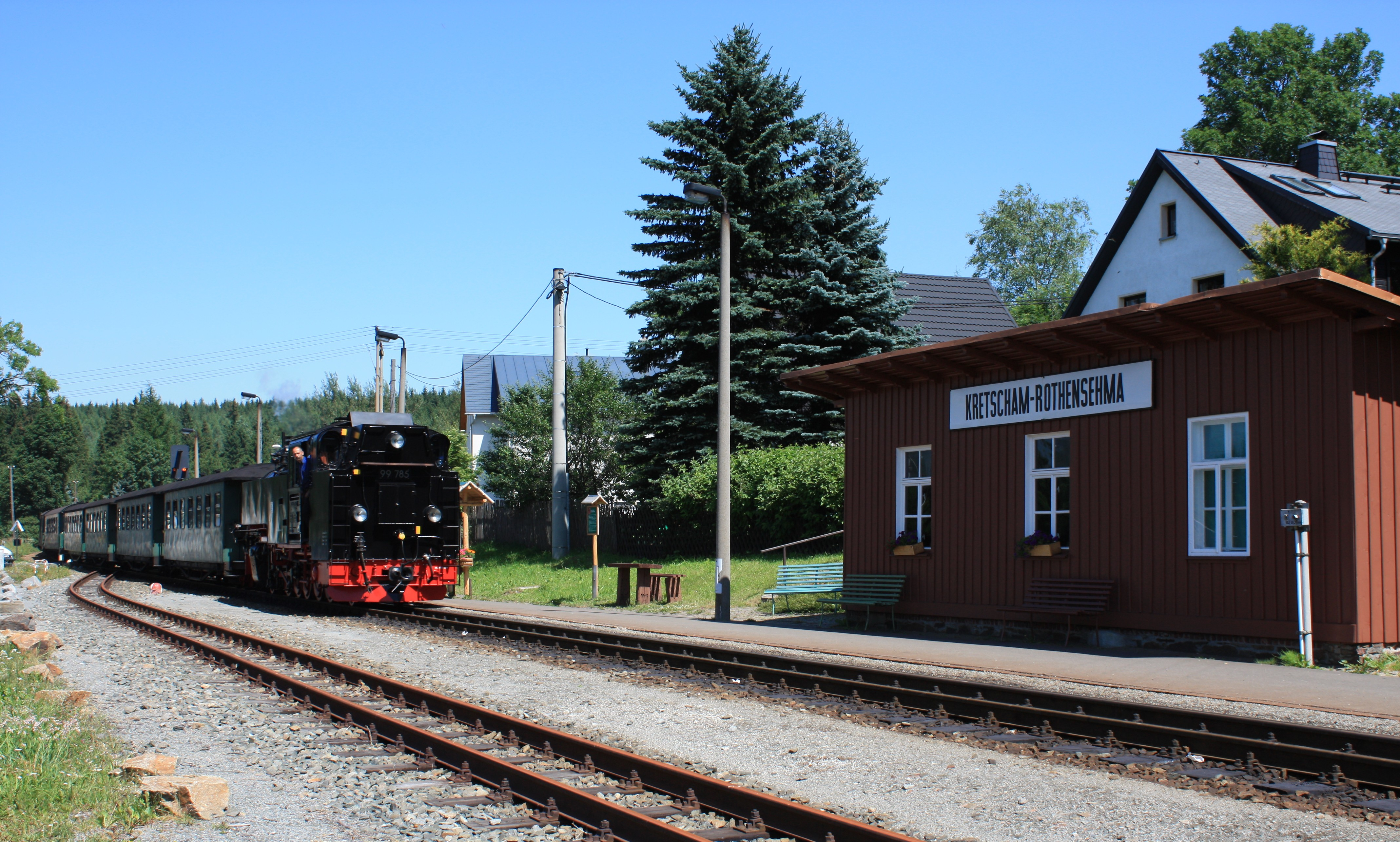 Kretscham-Rothensehma, Station